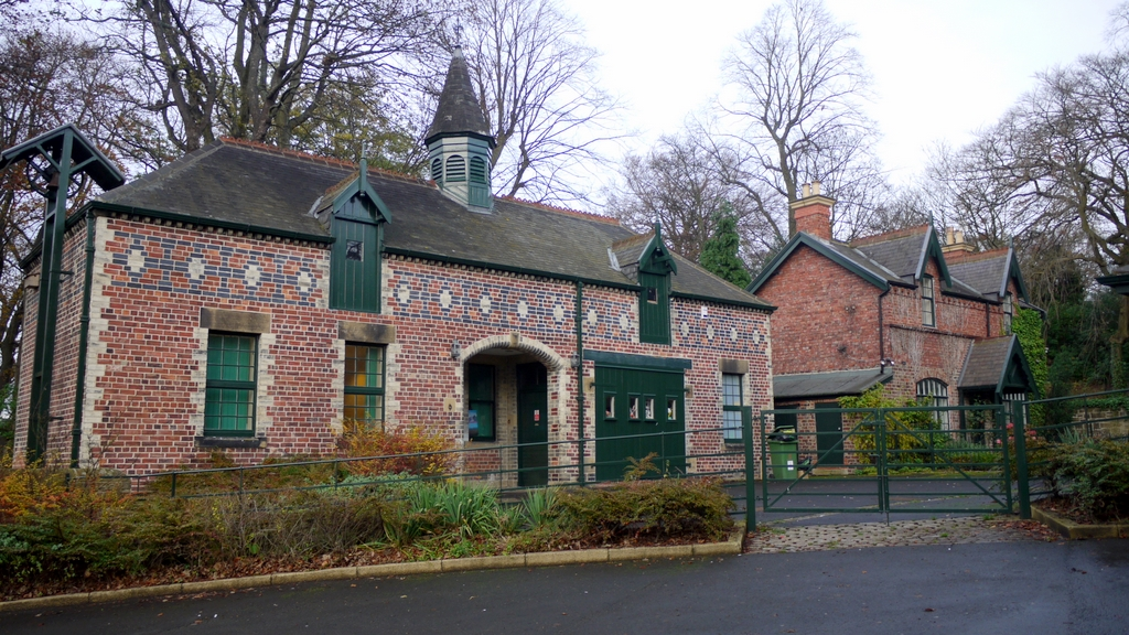 Stable Block, Saltwell Park. Built around 1871 in a similar style to the mansion 1581133. Red brick with white brick quoins and dressings and polychrome frieze. Hipped slate roof (a roof having sloping ends as well as sloping sides) with 2 gabled dormers, central spire, and a shelter for a bell on the west (left) side. There is a central segmental arched doorway with carriage doors on its right The building has been restored and is now used as an education area by schools, colleges and community groups.